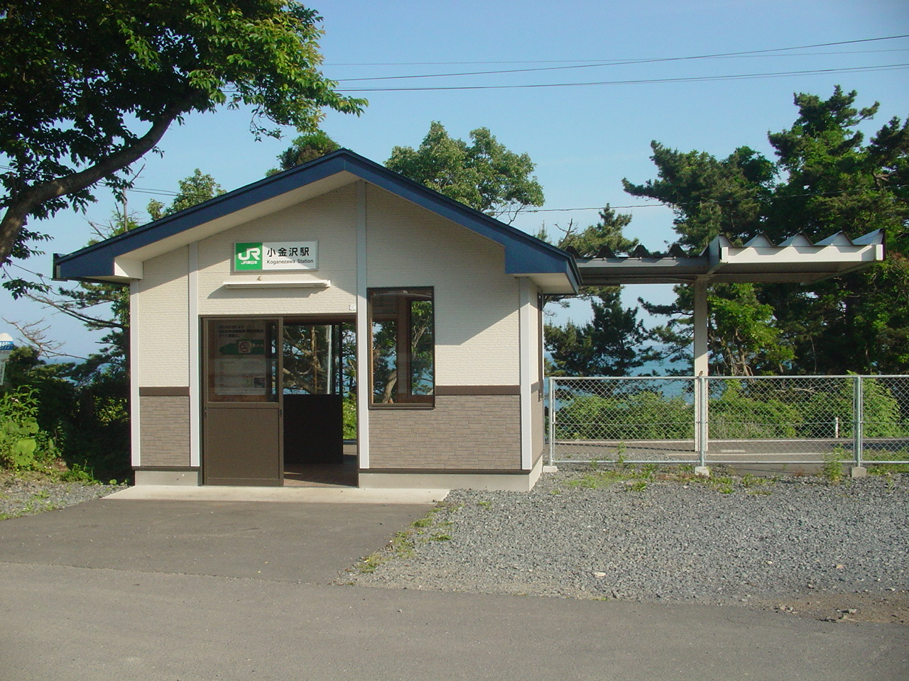 Koganezawa Station